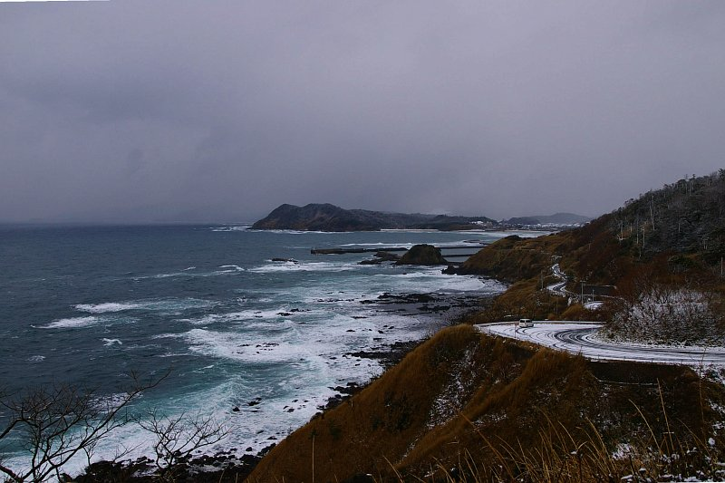 Coastline, view from Meridian monument, KyoTango-shi Amino, Kyoto, Japan.